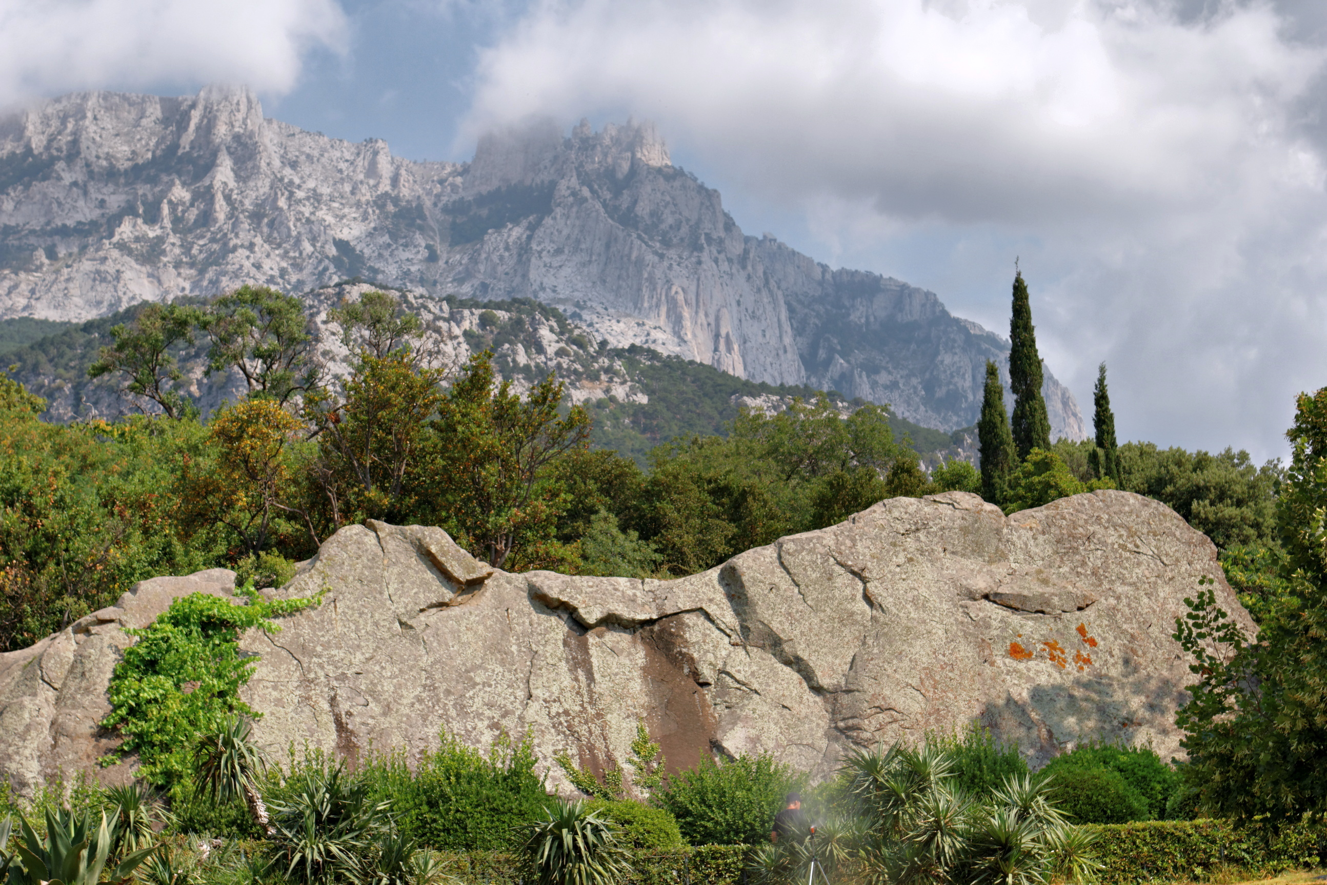 Vorontsov Palace